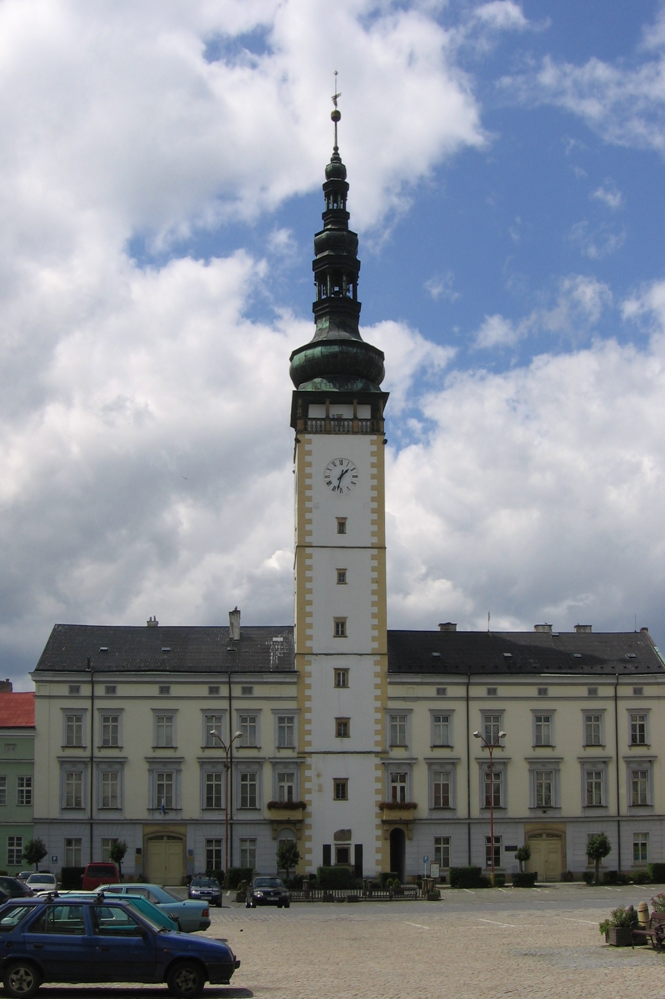 Town Hall in Litovel (Czech Republic)